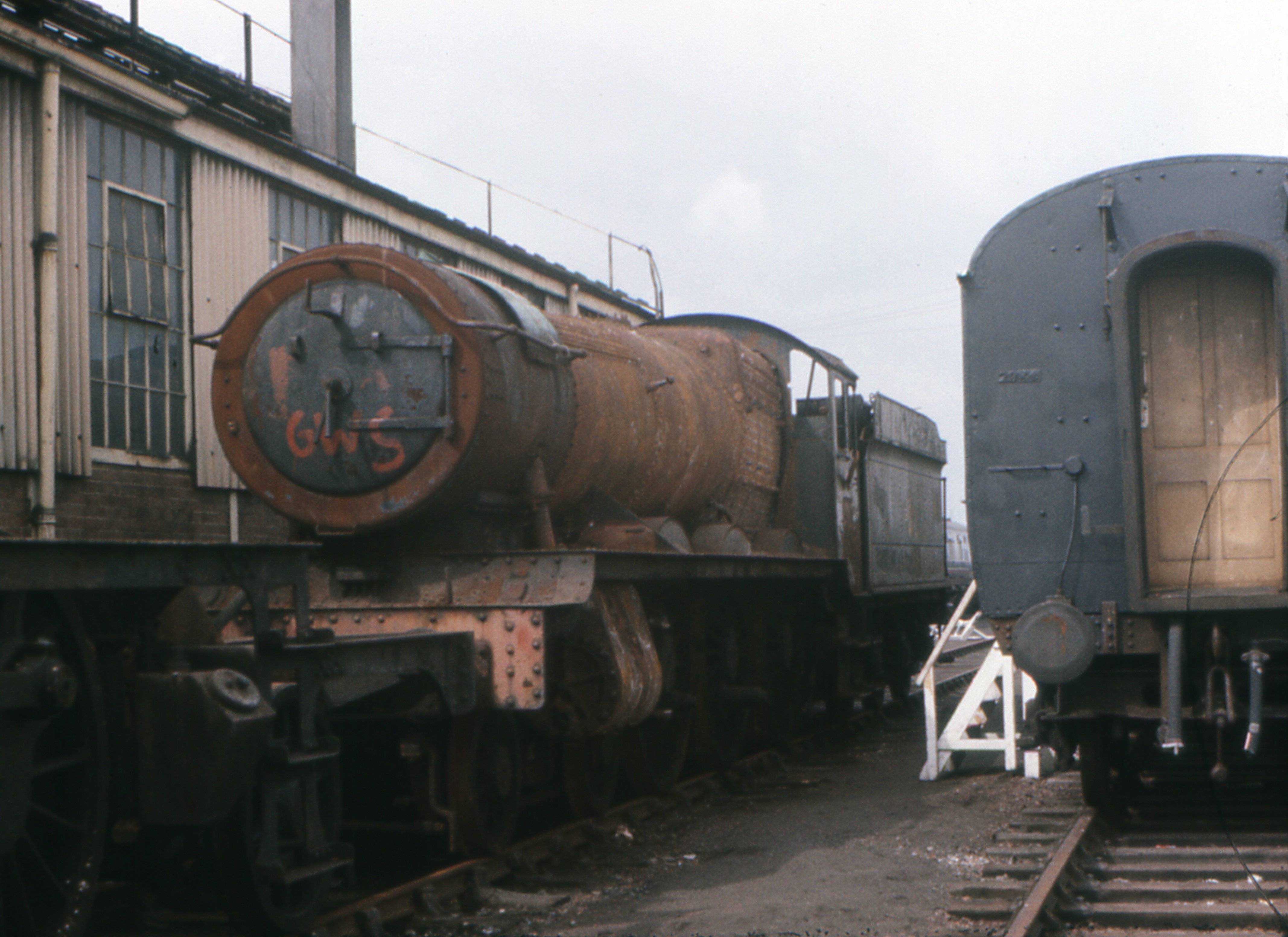 Ex GWR Hall class 4-6-0 No. 4942 Maindy Hall when photographed, just another Hall awaiting restoration, now the subject of a major endeavour to rebuild her as a Saint class 4-6-0. I can't wait! Camera: Olympus Pen F Half Frame SLR.